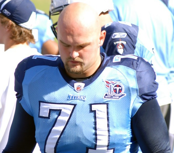 Tennessee Titans offensive tackle Michael Roos on the sidelines during the game against the Green Bay Packers on November 2, 2008 at LP Field.